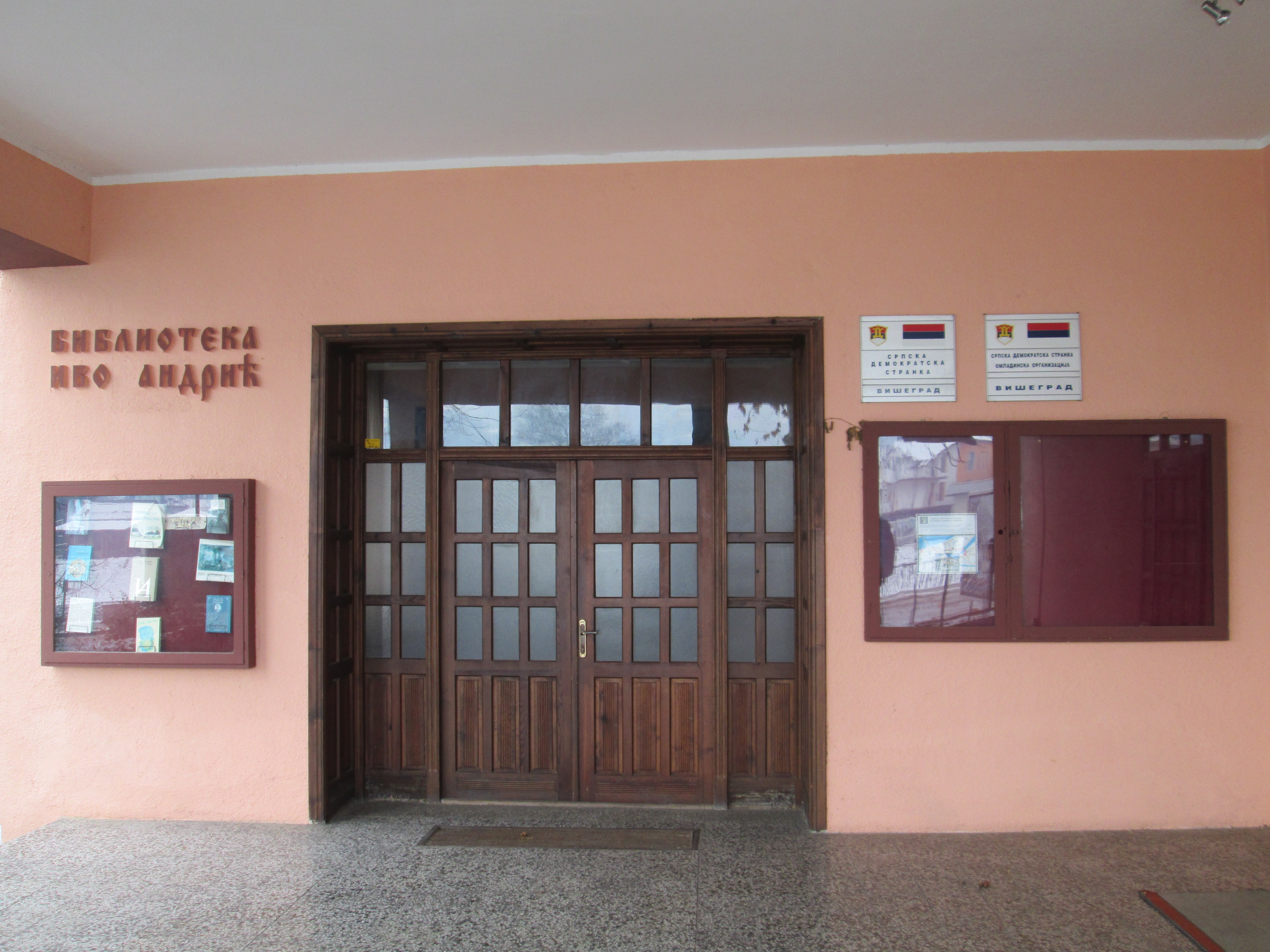 Editing Wikipedia Workshop in Visegrad - Photo tour around Visegrad, Public library "Ivo Andric"Српски (ћирилица): Радионица уређивања Википедије у Вишеграду - Фото тура по Вишеграду, Народна библиотека „Иво Андрић“